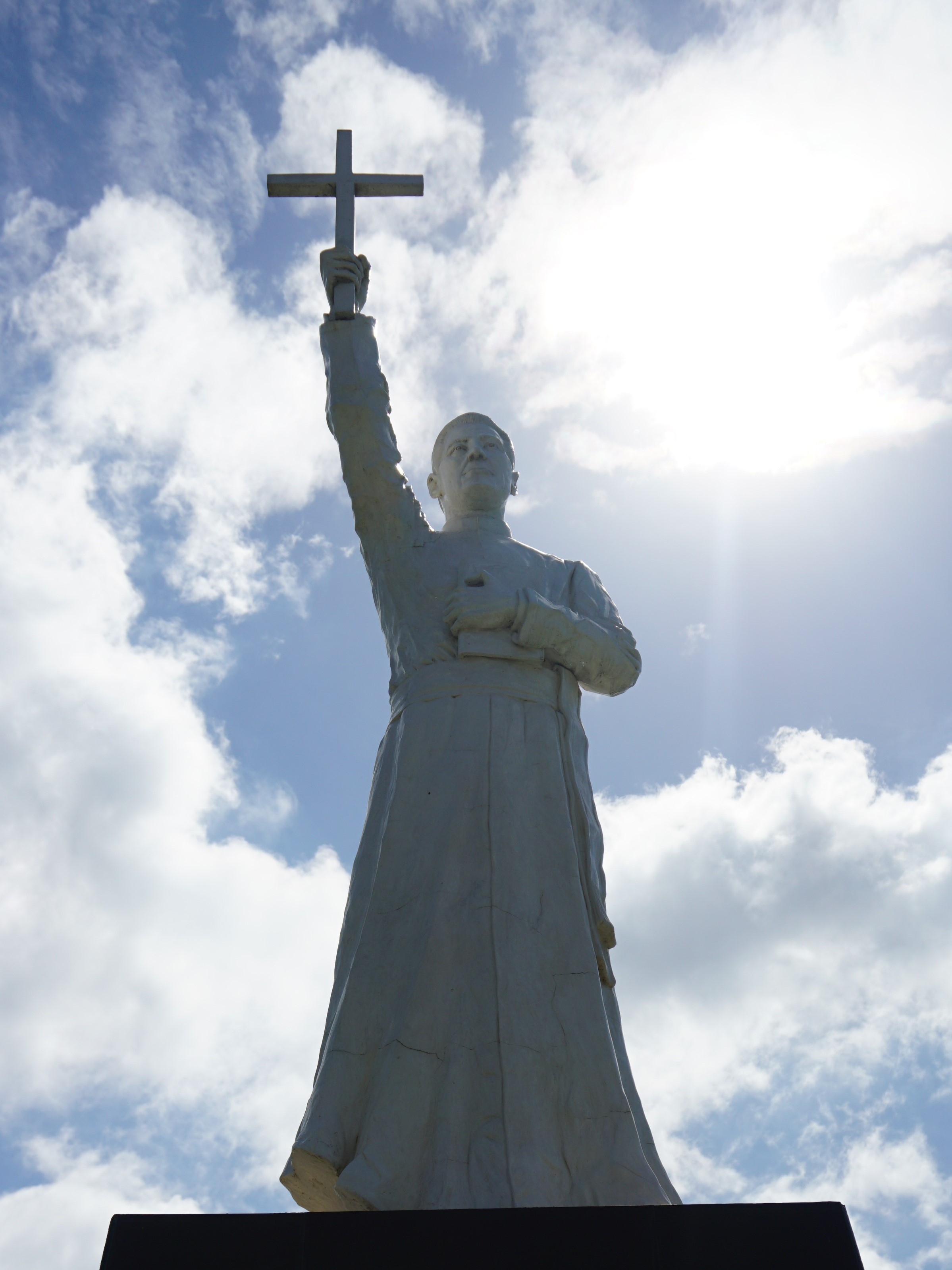 Fr. Saturnino Urios Monument at the FSUU Morelos Campus.